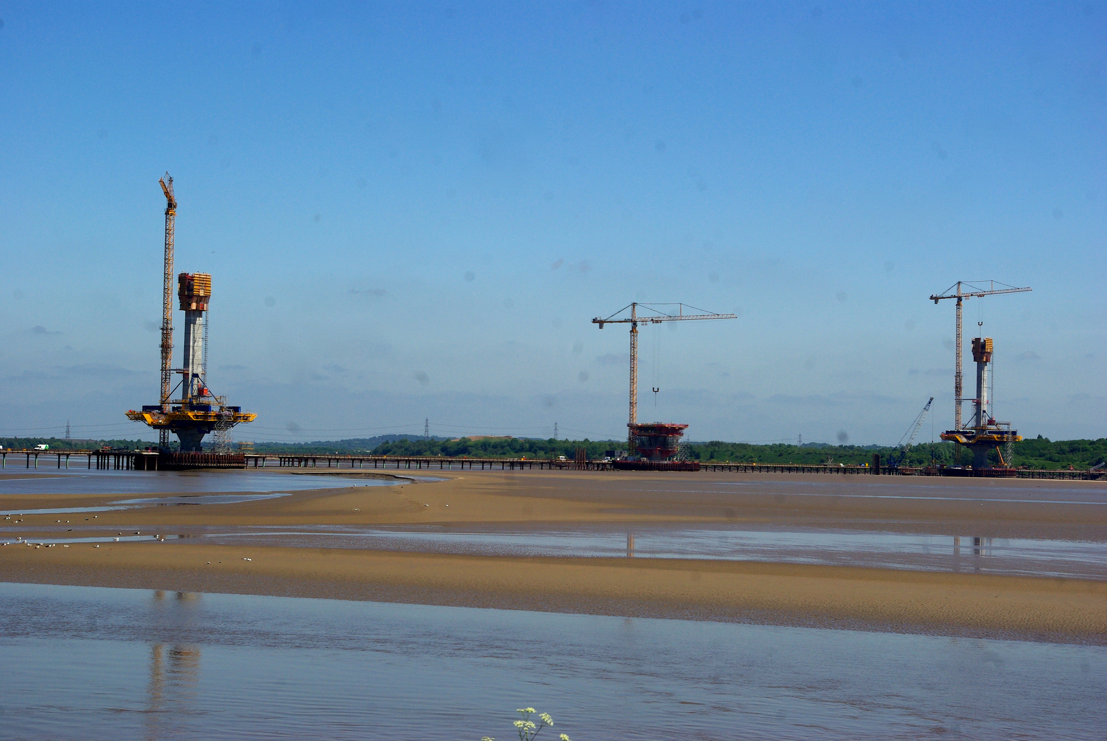 The Mersey Gateway bridge under construction in June 2016